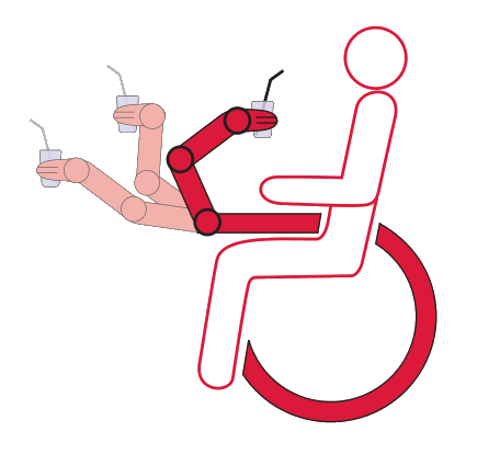 Logo of the AMaRob project